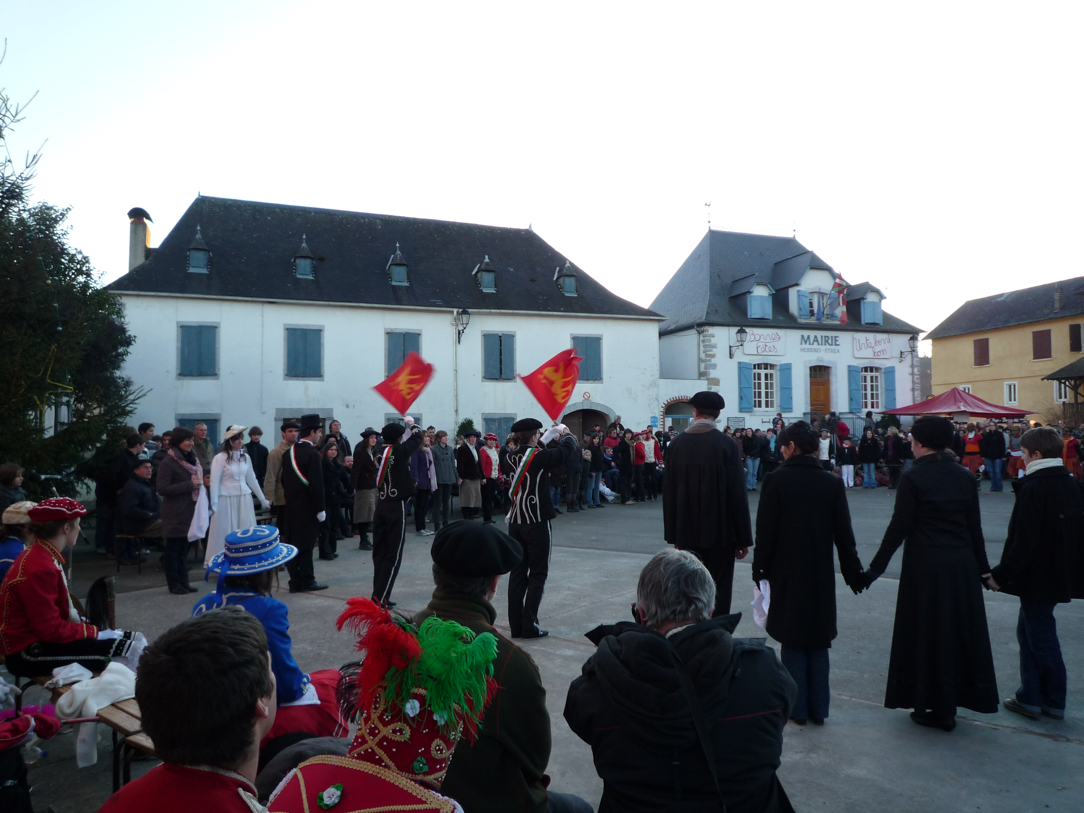 Mascarade in Barcus